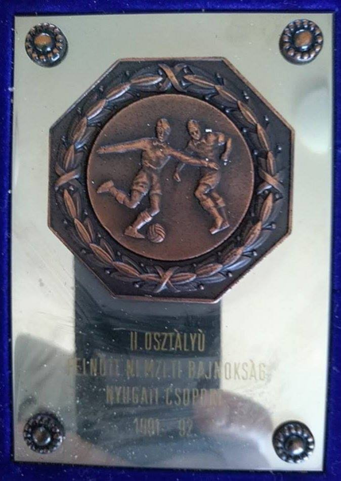 Dorogi soccer team won this bronze medal for their 3rd place in 2nd class fighting in 1991-92 division.